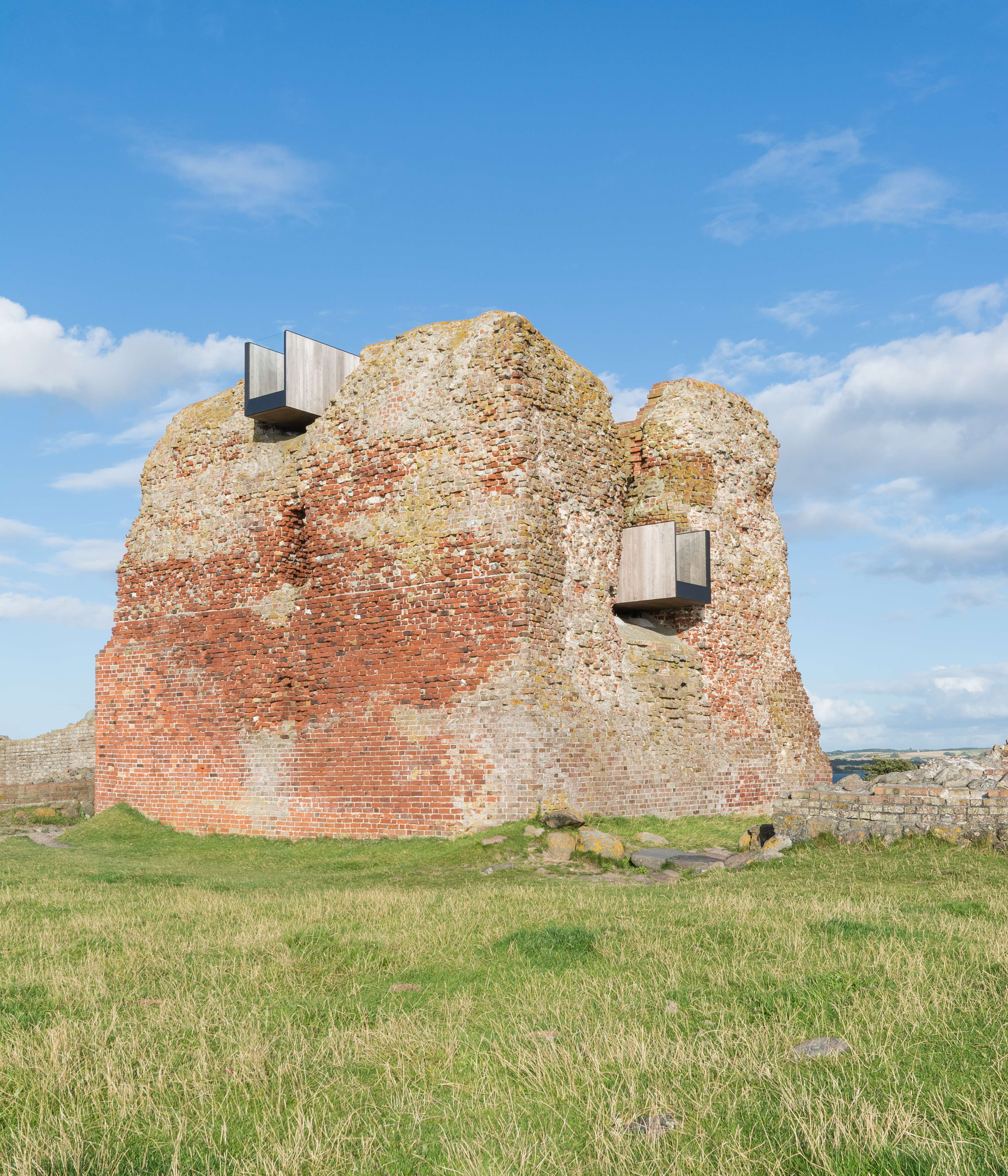 Ruin of Kalø Castle (Syddjurs Kommune), tower.